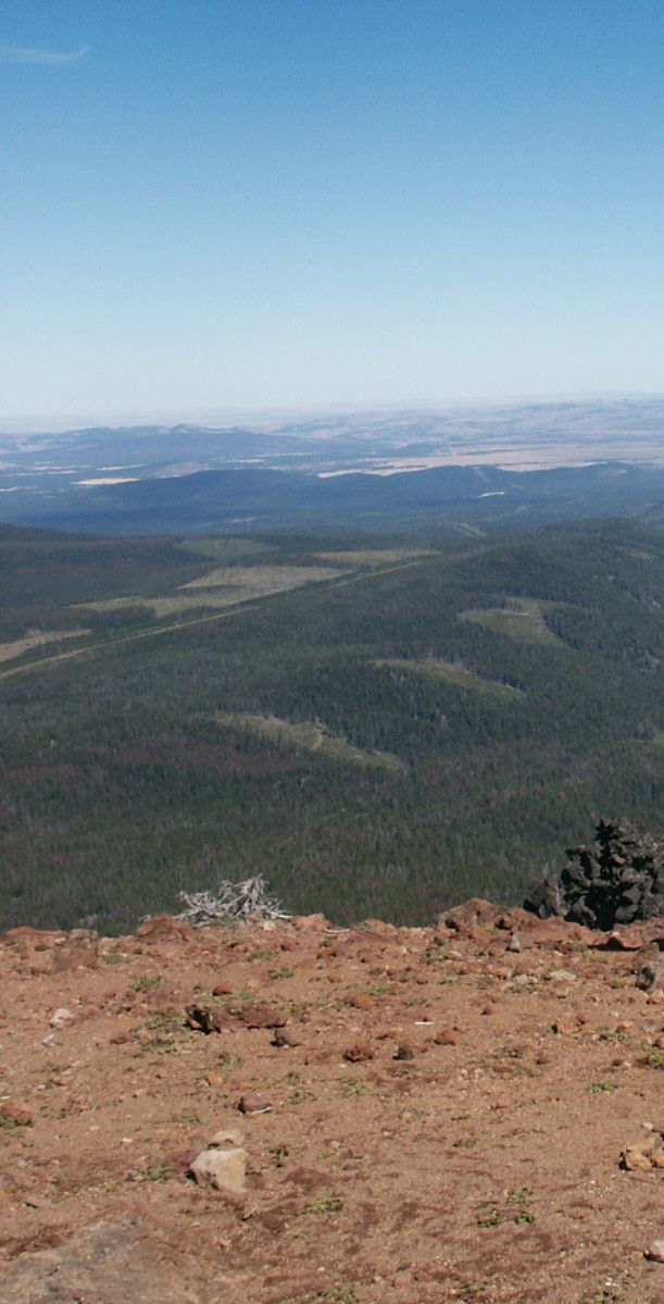 Olallie Butte's top looking east towards Central Oregon, USA.